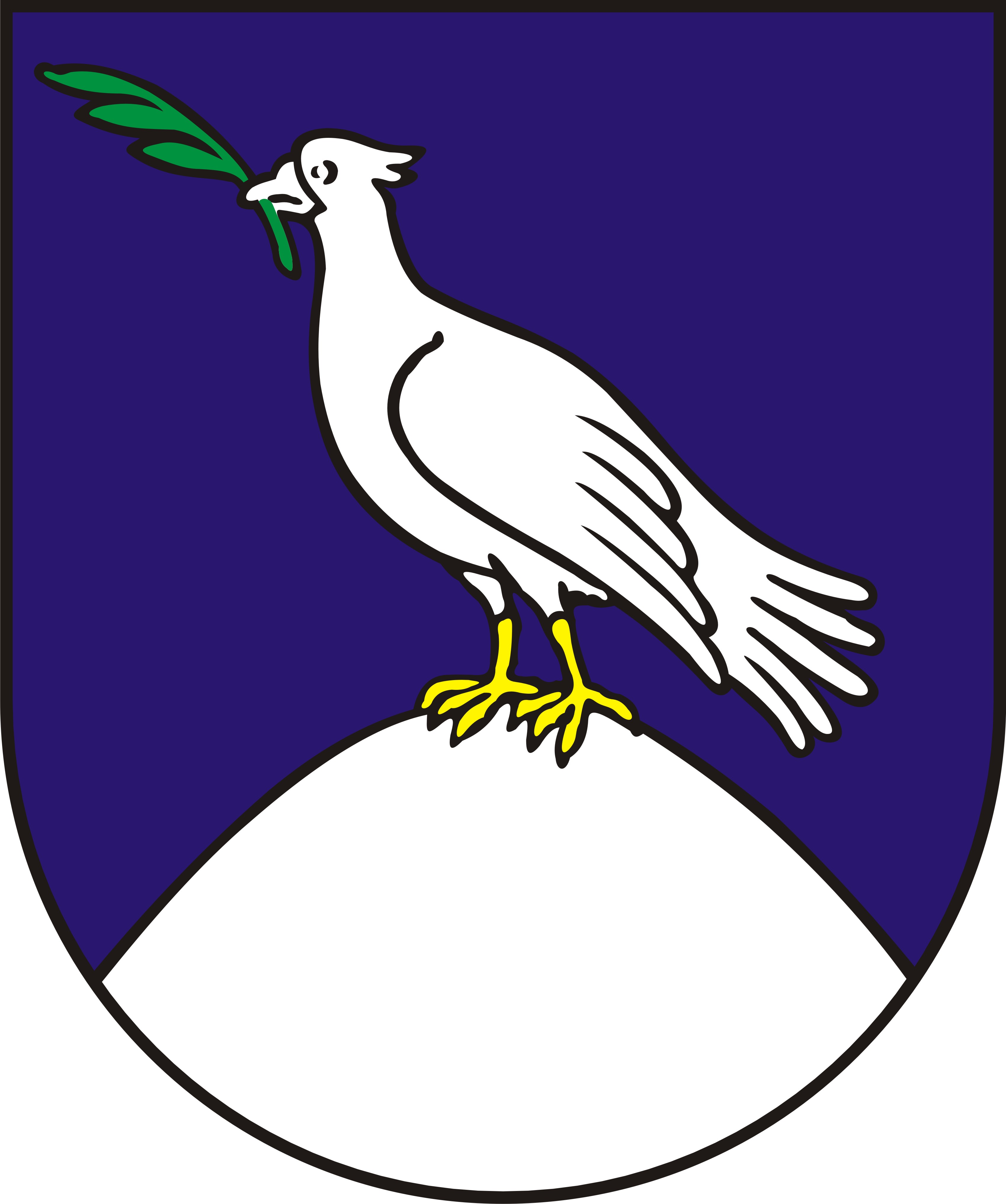 The Zelezna Breznica official mark